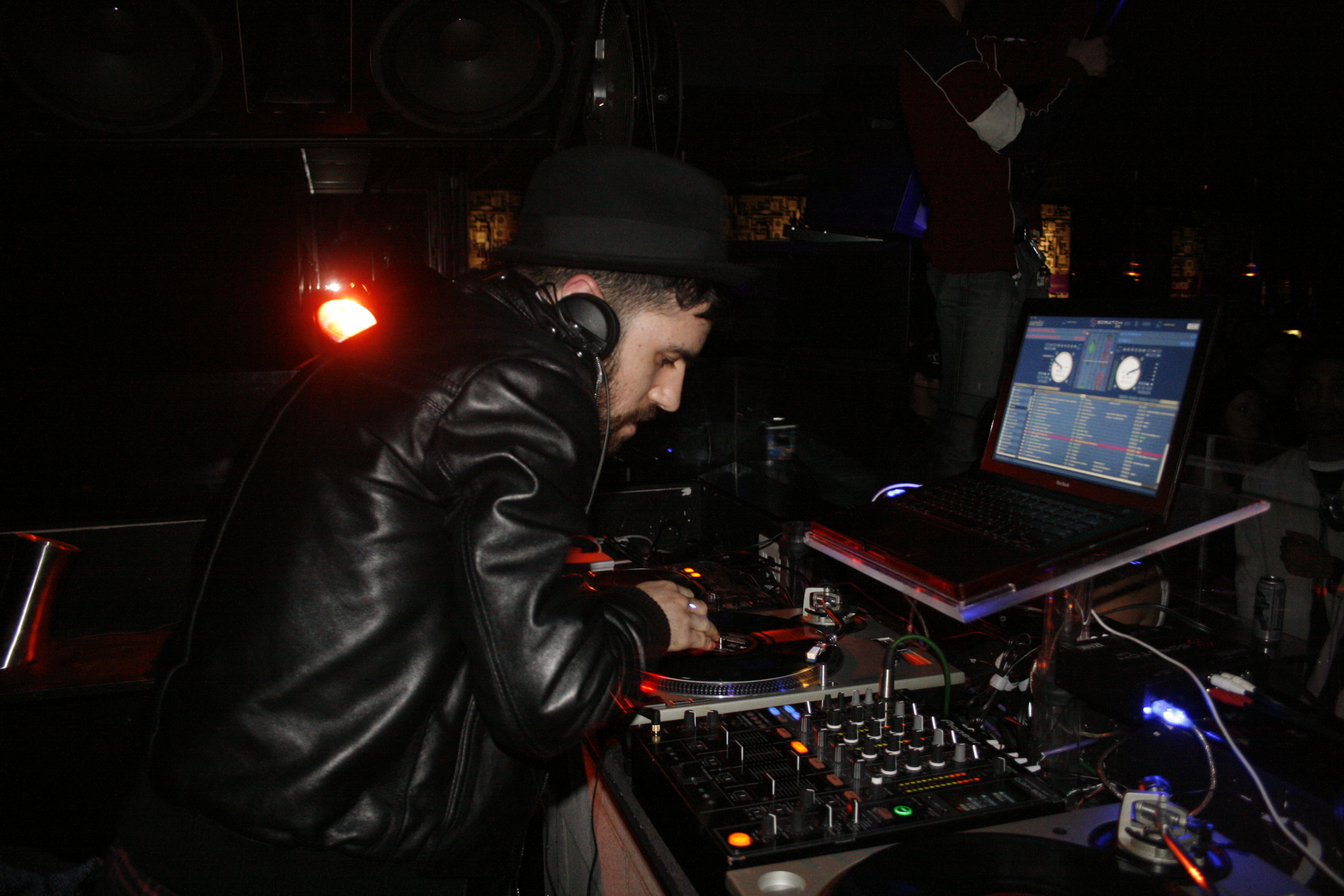 A-Trak hosting at Beta Nightclub on December 13, 2008 in Denver, Colorado.